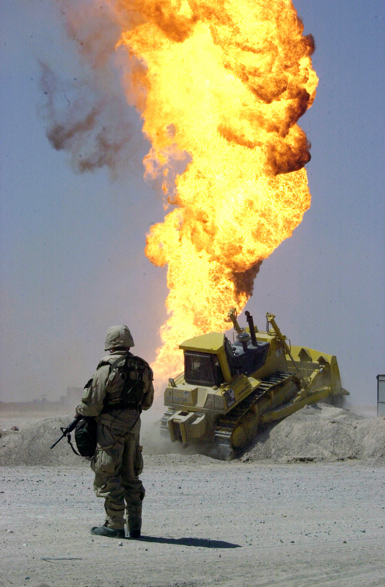 Southern, Iraq (Apr. 2, 2003) -- A U.S. Army soldier stands guard duty near a burning oil well in the Rumaylah Oil Fields in Southern Iraq. Coalition forces have successfully secured the southern oil fields for the economic future of the Iraqi people and are in the process of extinguishing the burning wells that were set ablaze in the early stages of Operation Iraqi Freedom. Operation Iraqi Freedom is the multi-national coalition effort to liberate the Iraqi people, eliminate Iraq's weapons of mass destruction and end the regime of Saddam Hussein. U.S. Navy photo by Photographer's Mate 1st Class Arlo K. Abrahamson. (RELEASED)